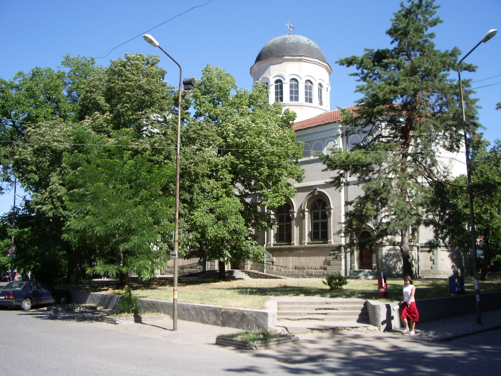 Church "Saint Nikola" in Yambol, Bulgaria